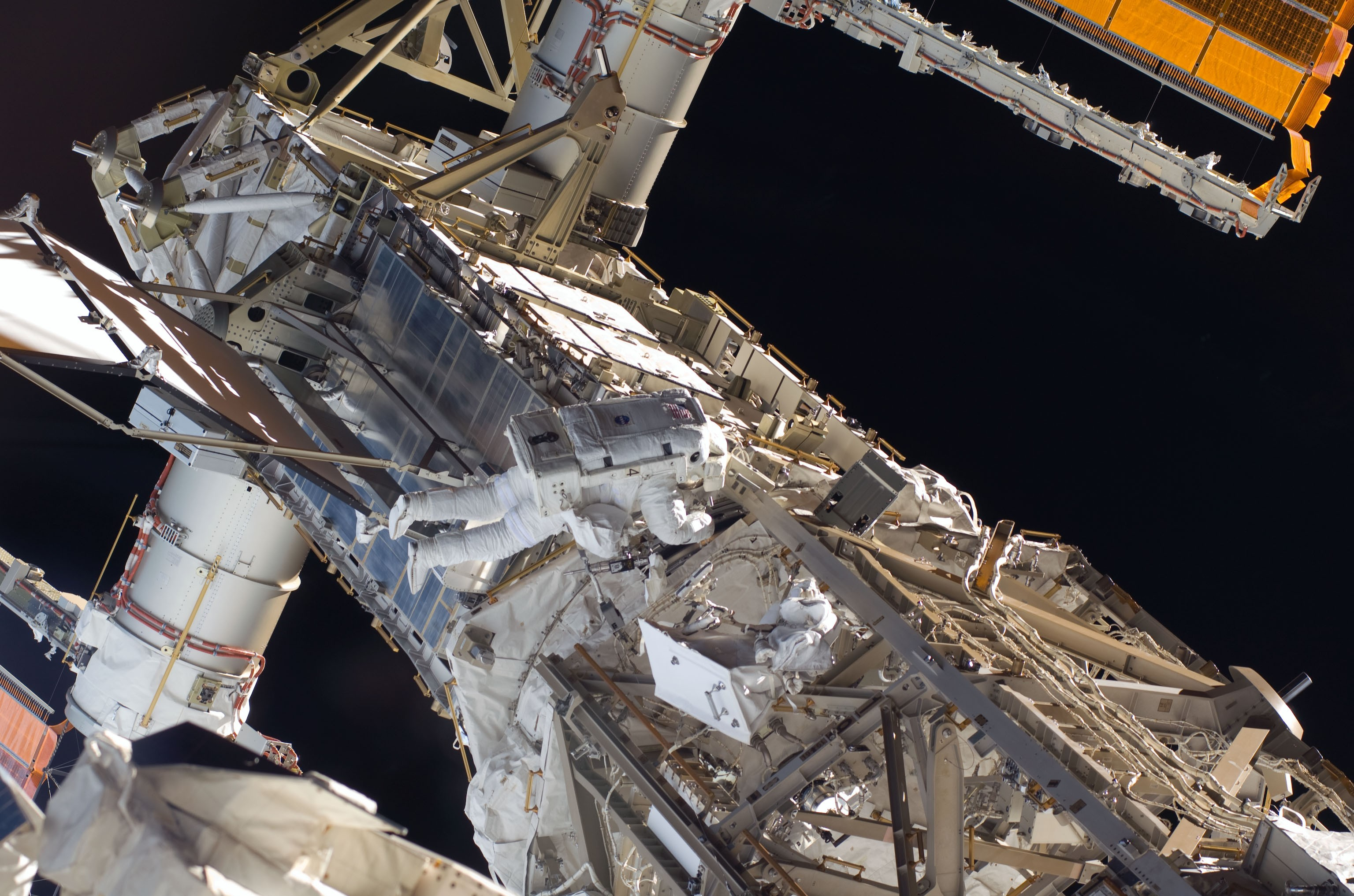 Astronaut Steve Bowen, STS-126 mission specialist, participates in the mission's third scheduled session of extravehicular activity (EVA) as construction and maintenance continue on the International Space Station. During the six-hour, 57-minute spacewalk, Bowen and astronaut Heidemarie Stefanyshyn-Piper (out of frame), mission specialist, focused their efforts on the continued cleaning of the station's starboard solar alpha rotary joint (SARJ) and the removal and replacement of trundle bearing assemblies (TBA). Bowen and Piper also cleaned the area around the SARJ's drive lock assemblies, which help the joint to rotate and lock into place.